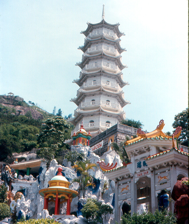 The pagoda in Tiger Balm Garden. Tiger Balm Garden was built in 1935 by Aw Boon Haw. His family had become rich by making an selling Tiger Balm, a heat rub for muscular aches, in southeast Asia. The garden was opened to the public (an early "theme park") in the 1950s. Most of hte property was sold for redevelopment in 1998, but a small portion remains.